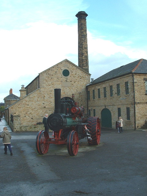 Elsecar Heritage Centre, Elsecar, Barnsley in South Yorkshire